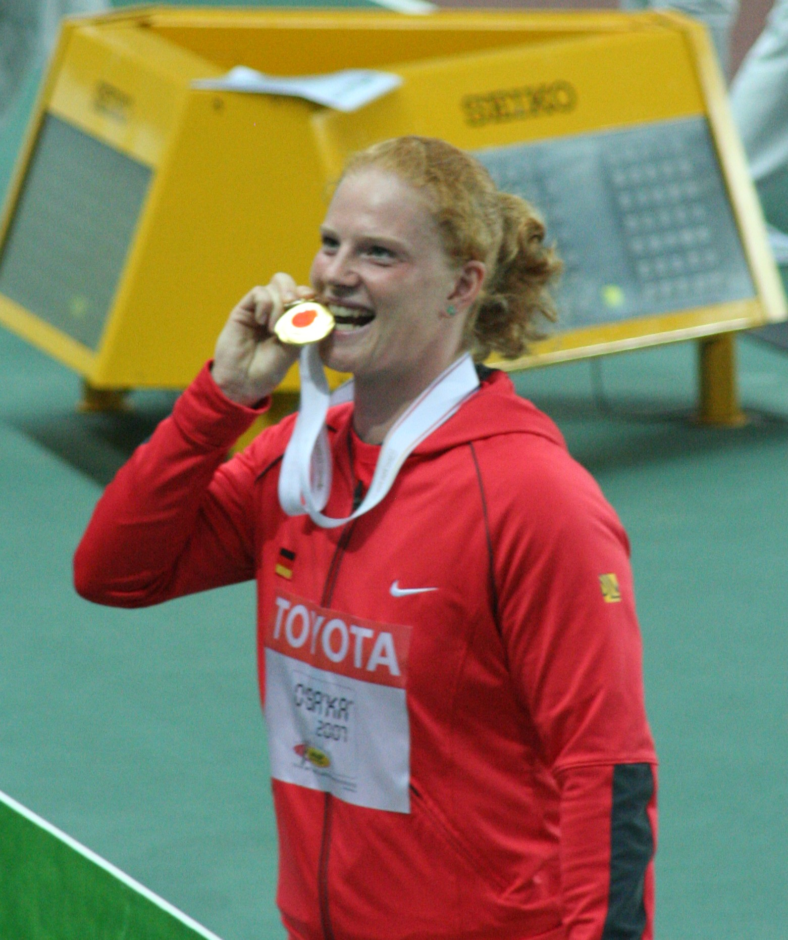 World Athletics Championships 2007 in Osaka - Hammer throwing world champion Betty Heidler after the victory ceremony with her gold medal